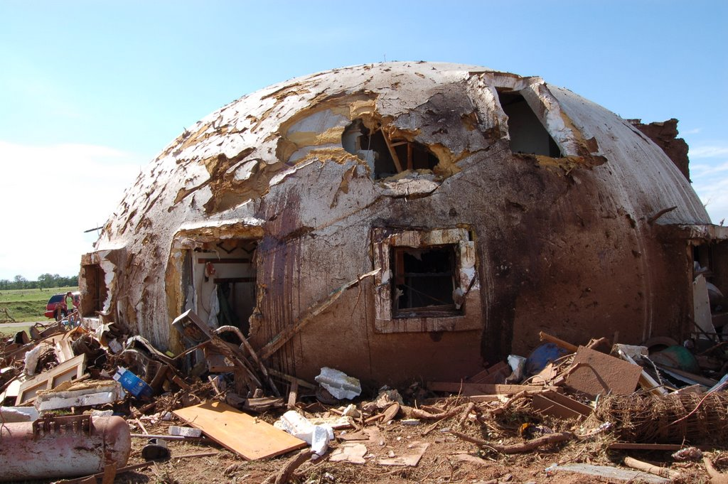 A reinforced concrete monolithic dome that was severely damaged by the EF4 Chickasha-Blanchard-Newcastle tornado.